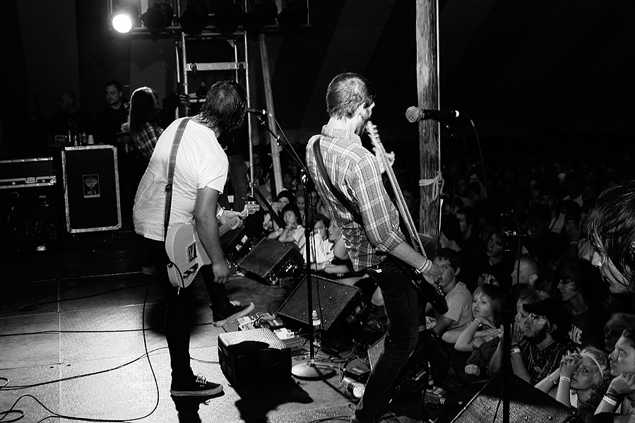 The Glass Ocean performing live at Cornerstone Festival in Bushnell, IL.